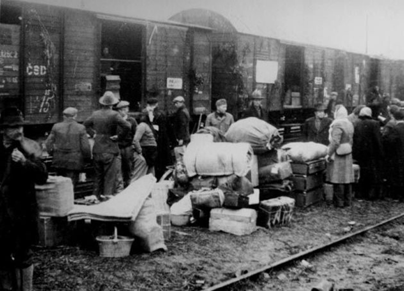 Note: The source description of this image has been contested. The carriage has letters ČSD (i.e. Czech State Railways; which operated before World War II, and after). Likewise, the soldier overseeing the operation does not seem to be Soviet, and the luggage is larger and more varied than in the NKVD practice; only one hour or so was given to pack.[1][2]Source description: Deported Polish families load onto trains to Siberia in Eastern Poland during the Soviet occupation of Kresy in World War II. First wave of mass deportations began on the night of 9 February 1940. The second, on 13 April 1940. The third, on 29 June 1940. And the final fourth one, between May and June 1941. The cumulative number of Polish nationals extracted from their homes and sent to Soviet no-mans land with nothing to live on exceeded 1,600,000.